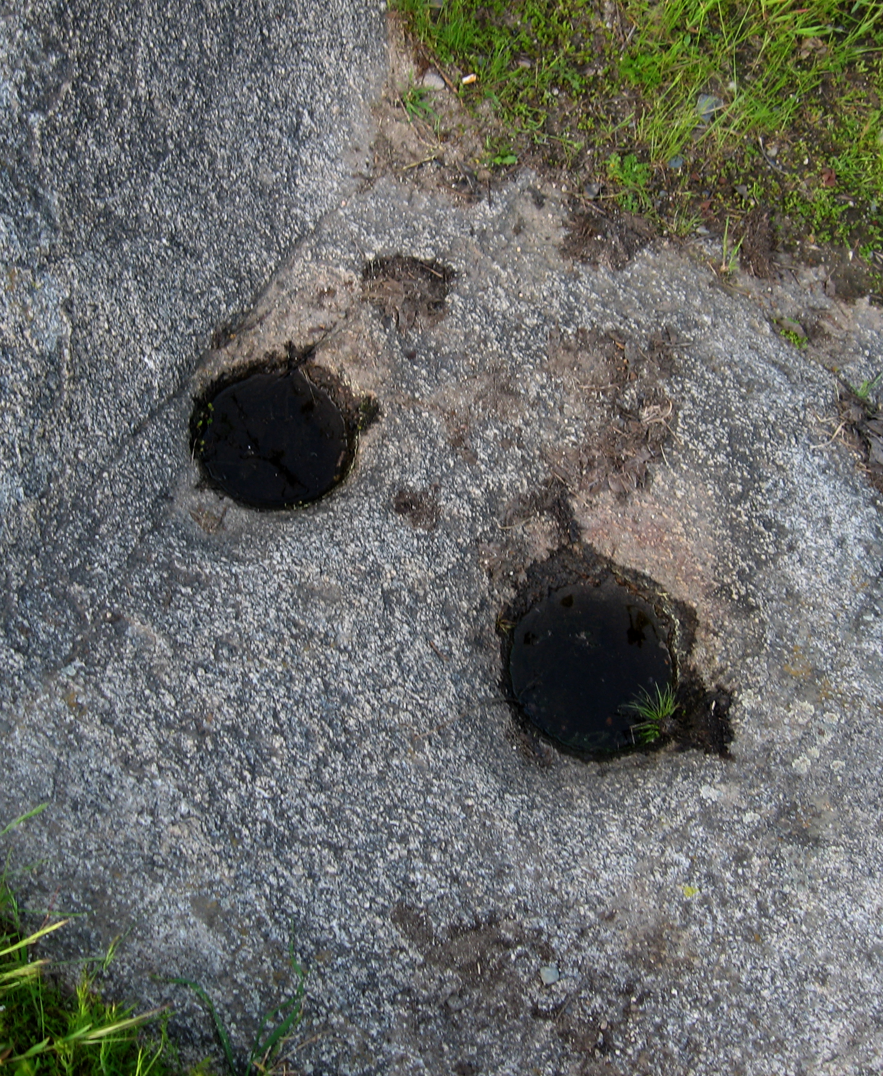 Mortar holes ground into rock for leaching tannins out of acorns. Lost Lake, California near Friant.